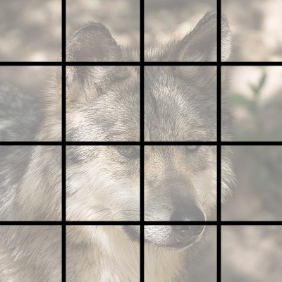 Image processing on a hypercube. Step 1.